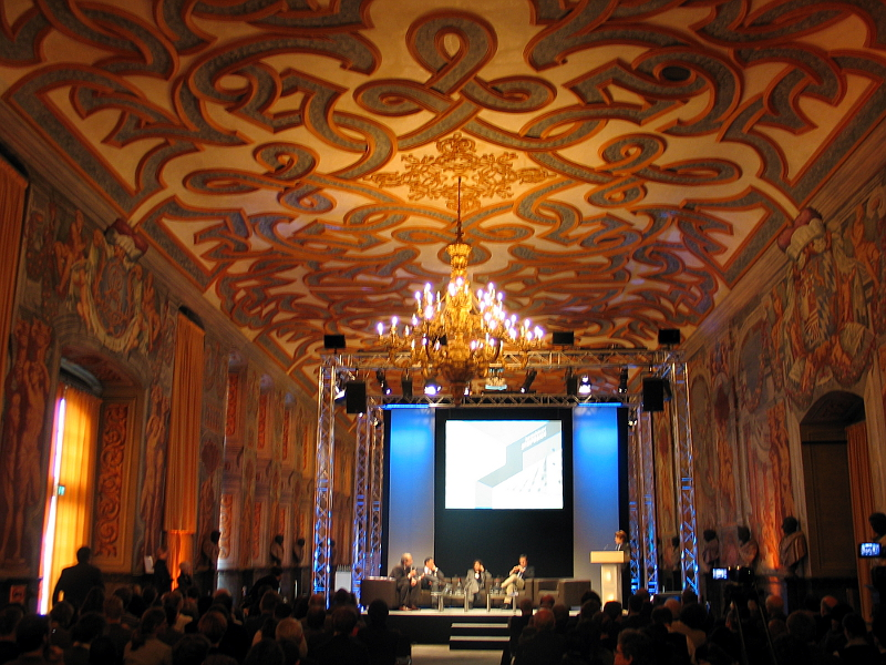 Impressions from the second day of the Herrenhausen Symposium Already Beyond? - 40 Years Limits to Growth, organized by VolkswagenStiftung in the Gallery building of Herrenhausen Gardens in Hanover ...